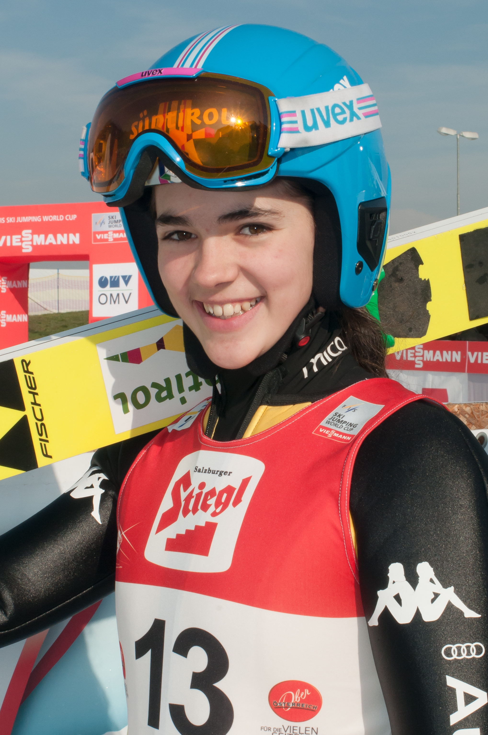 FIS Ski Jumping World Cup Ladies Hinzenbach 2016-02-07